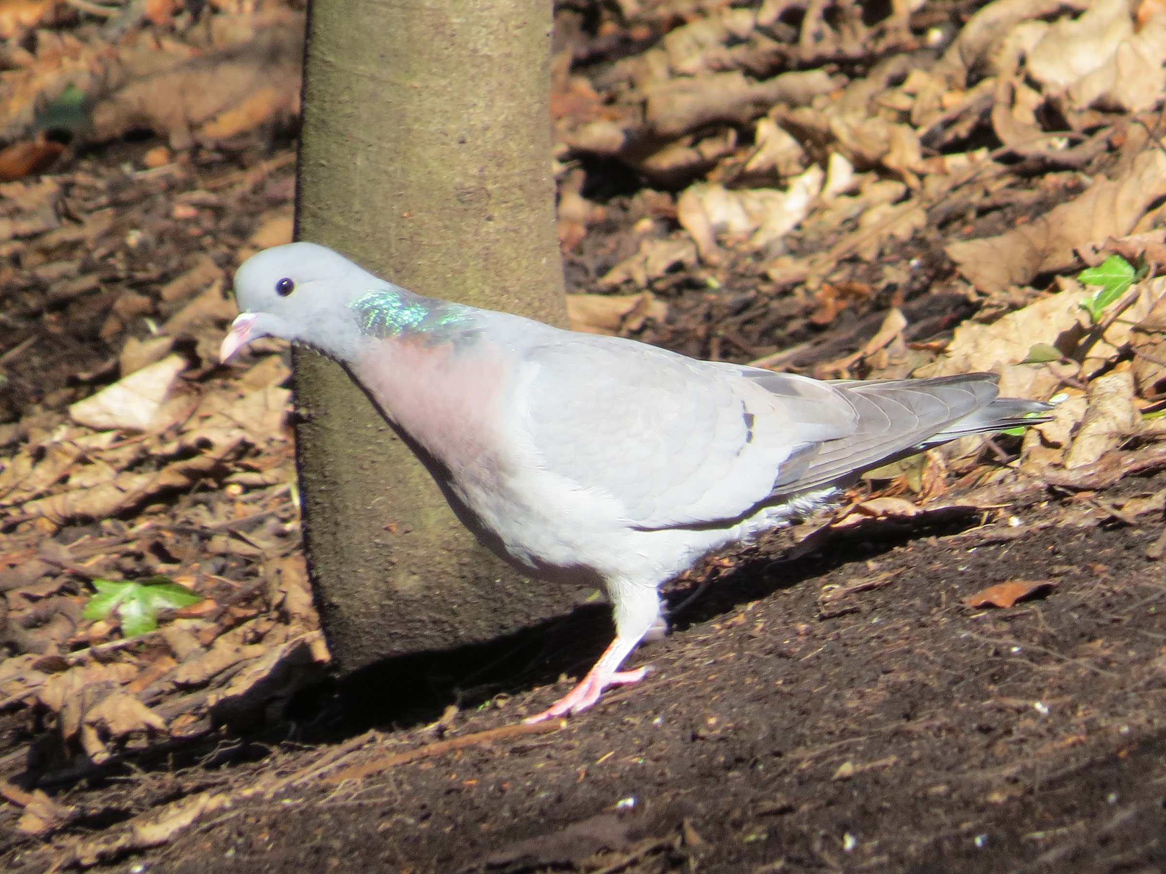 Stock Dove Columba oenas, Armstrong Park, Newcastle, Northumberland, UK